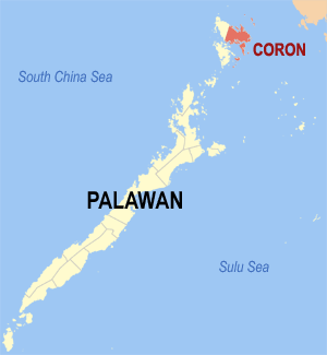 Map of Palawan showing the location of Coron